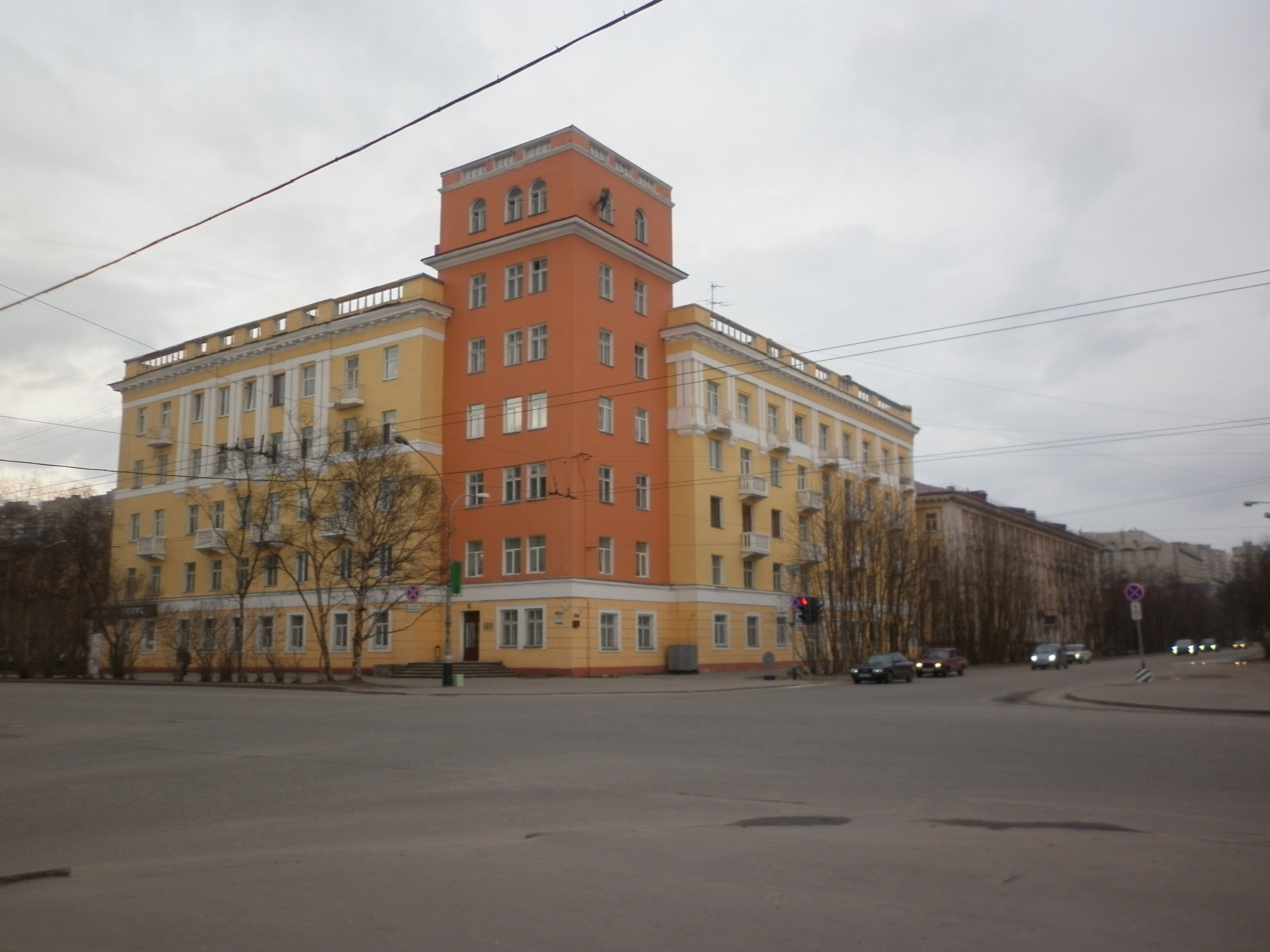 Мурманск